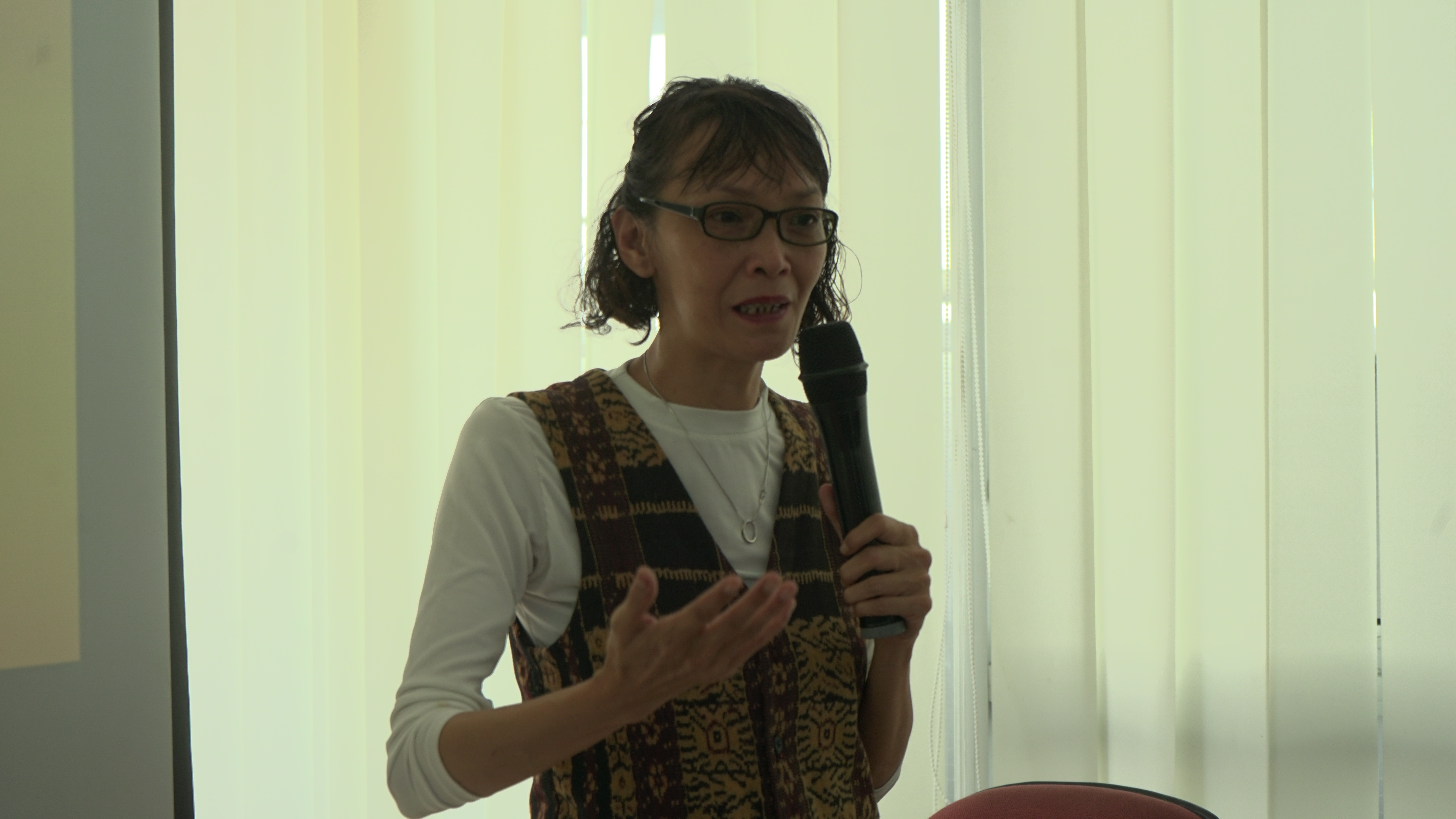 Mona Sylviana is a writer from Bandung, West Java, Indonesia. She is shown here giving a presentation about her works (travel narration on women weavers from Maluku) funded by Cipta Media Ekspresi grant.